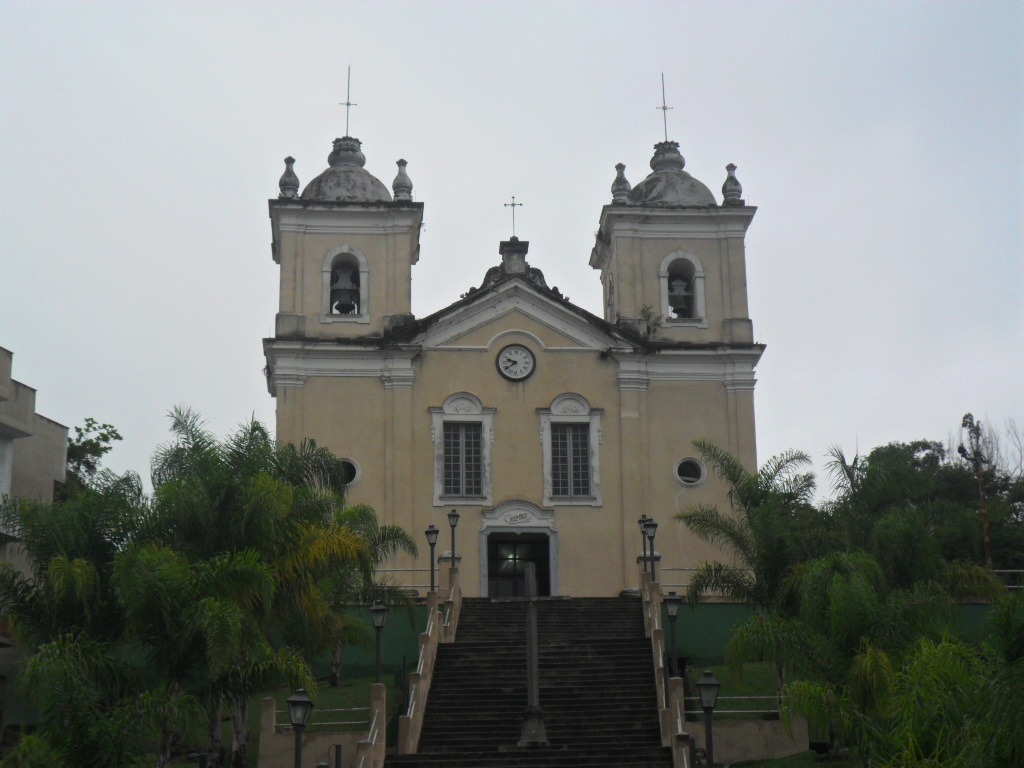 Saint Anne church in Pirai, Rio de Janeiro, Brazil